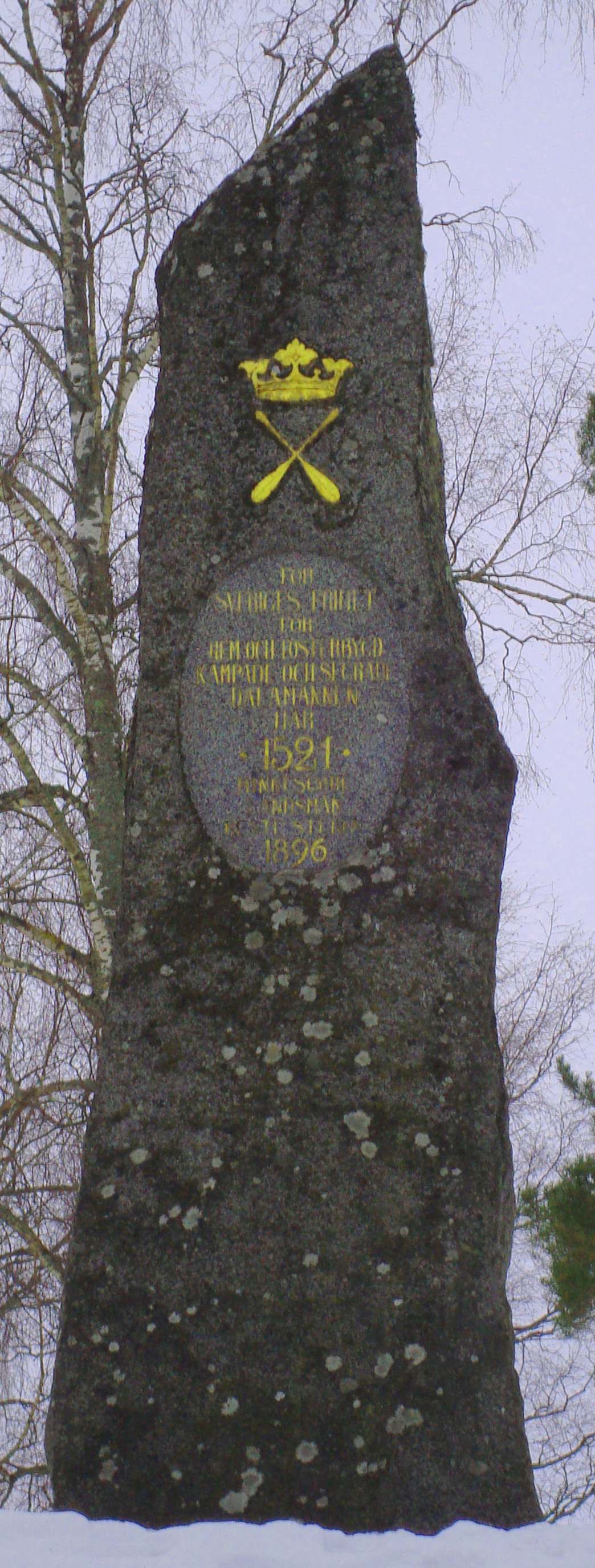 Memorial over the battle of Brunnbäck, where a mob of Swedes defeated a much larger Danish army in 1521. Avesta municipality, Sweden.